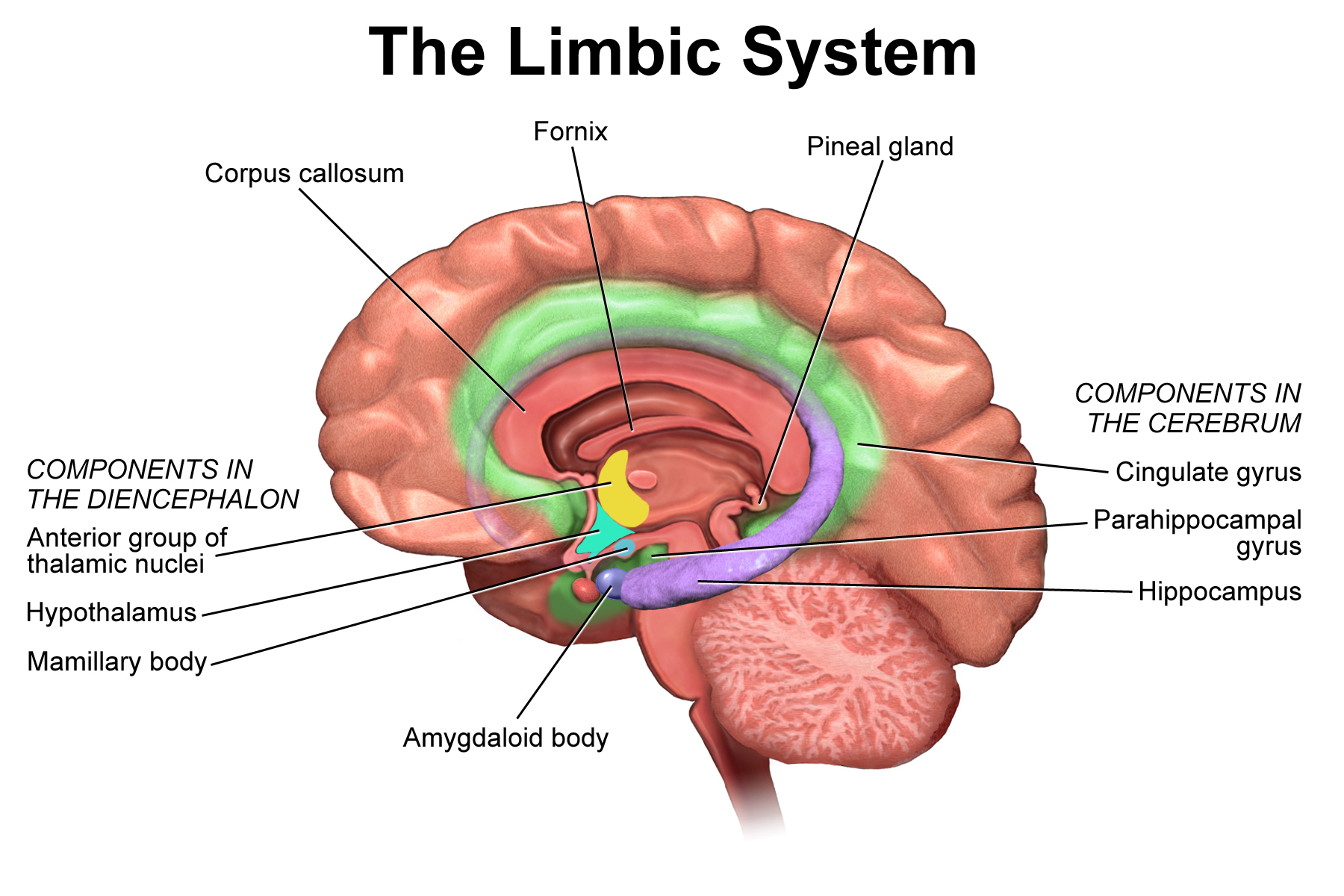 Limbic System. See a full animation of this medical topic.